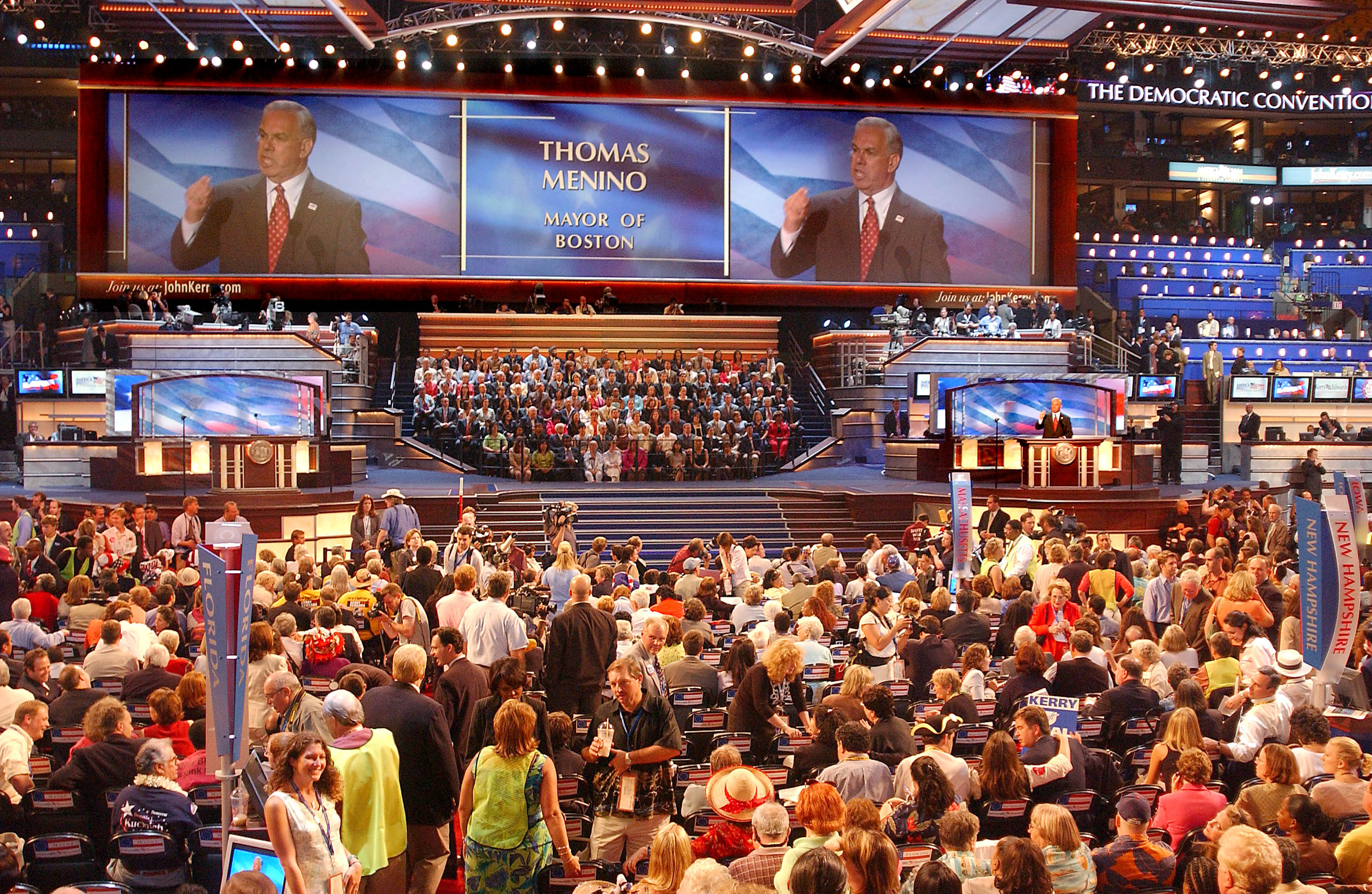 Title: Mayor Thomas M. Menino welcomes delegates to the 2004 Democratic National Convention Creator: Mayor's Office - City Photographer Date: 2004 July 26 Source: Mayor Thomas M. Menino records, Collection #0247.001 Rights: Copyright City of Boston Citation: Mayor Thomas M. Menino records, Collection #0247.001, City of Boston Archives, Boston